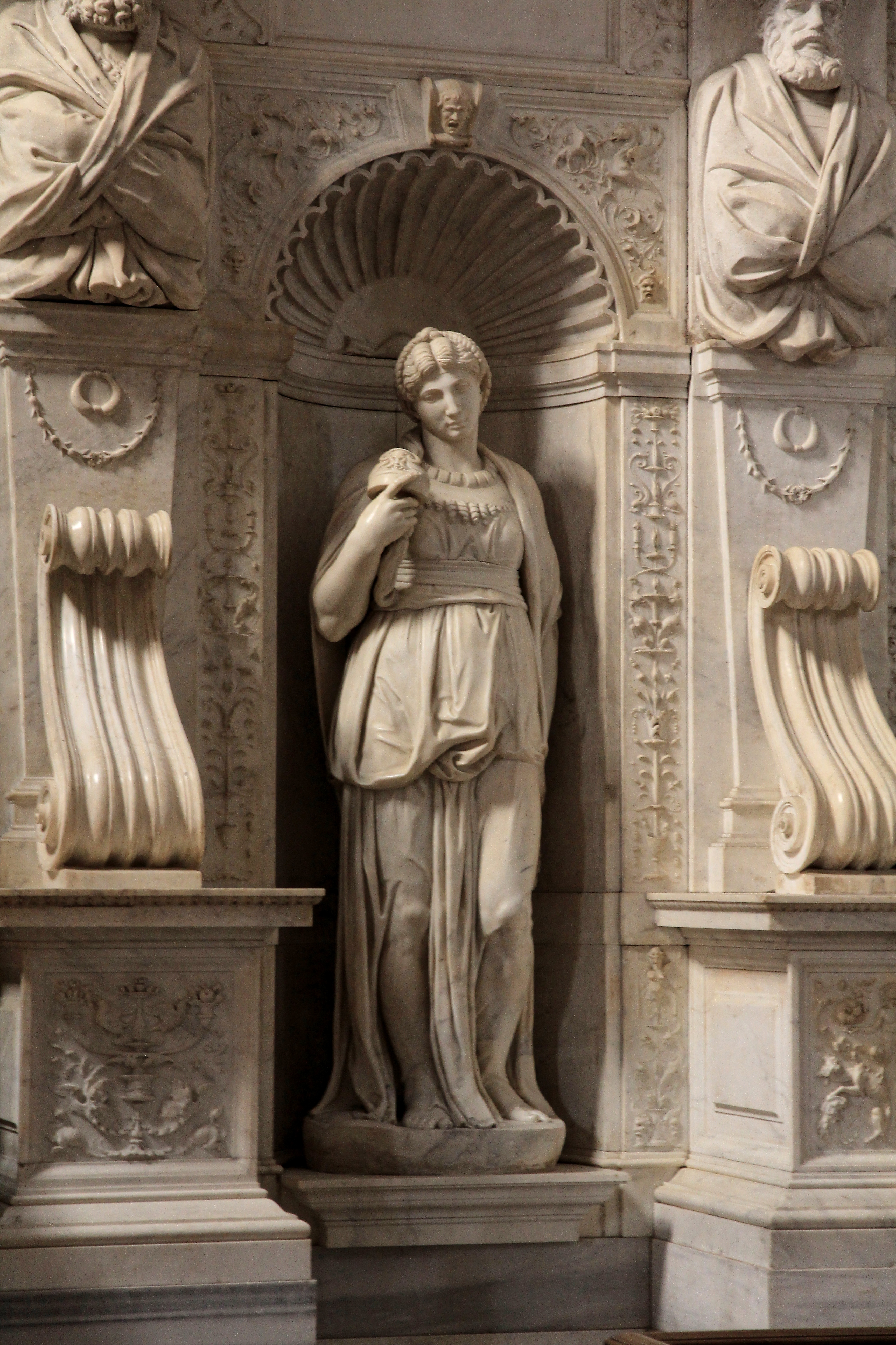 Leah by Michelangelo Buonarroti, Tomb (1505-1545) for Julius II, San Pietro in Vincoli (Rome)